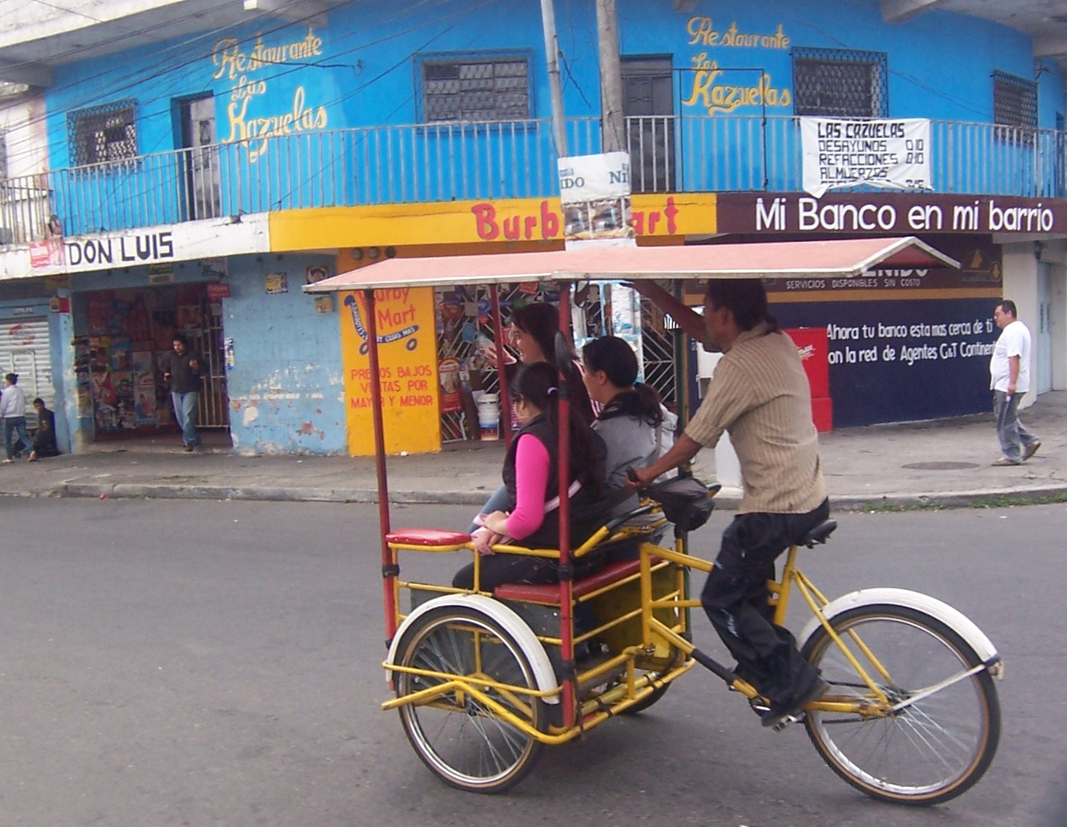 Pedicabs, used for short distances, Zone 11 of Guatemala